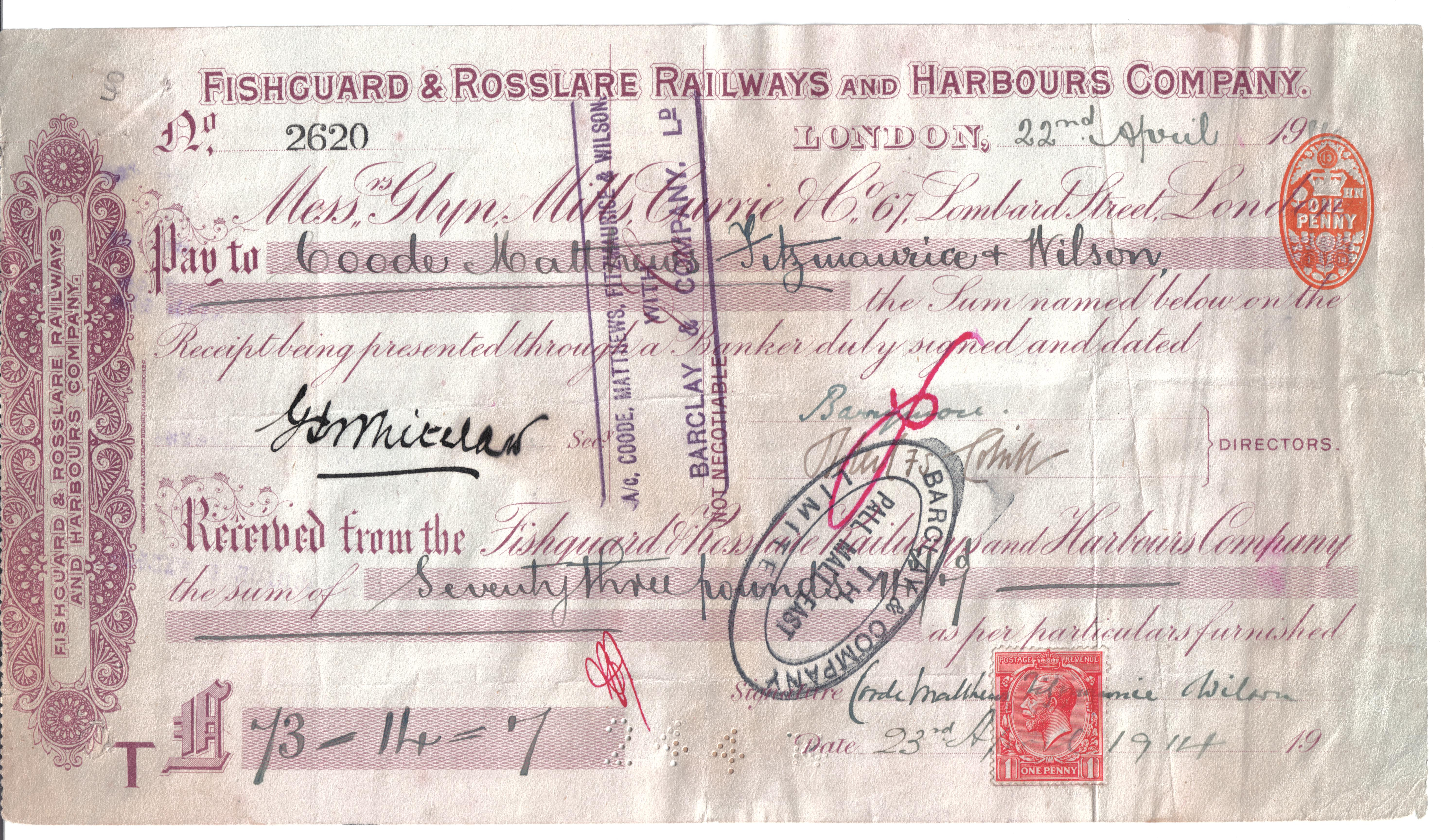 Fishguard & Rosslare Railways & Harbours Co. cheque/receipt, with imbossed and adhesive revenue stamps.